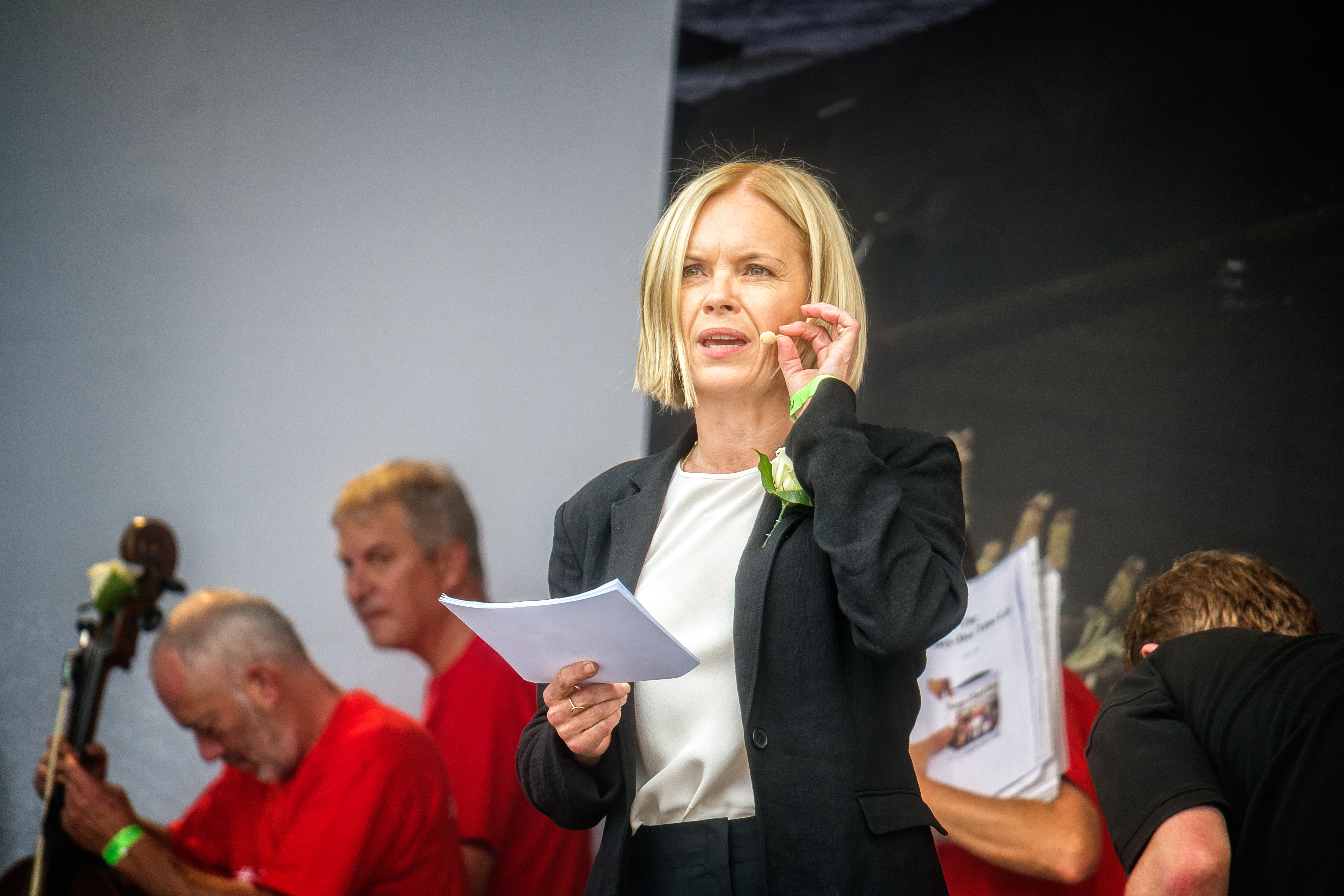 Photos taken at the birthday memorial for Jo Cox, MP, at London's Trafalgar Square.